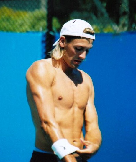 Taken during practice session.